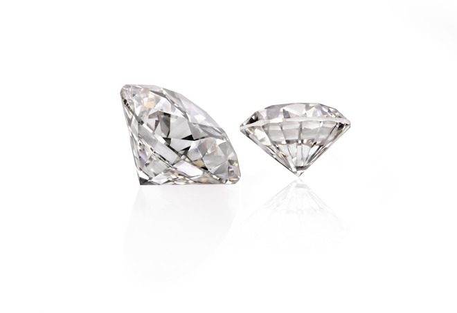 Two diamonds grown by Washington Diamonds Corporation.